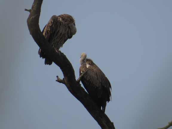 Asian White-rumped Vulture medium-sized vulture G. bengalensis